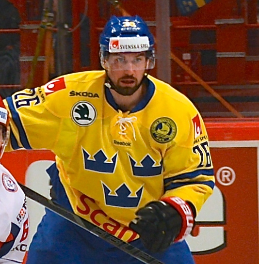 Niklas Olausson during Oddset Hockey Games against Russia (2-0) at the Ericsson Globe in Stockholm on May 4th, 2014.